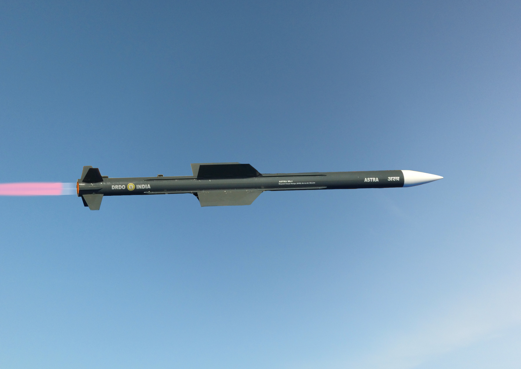 Derivative work of the Astra Mk-I missile.